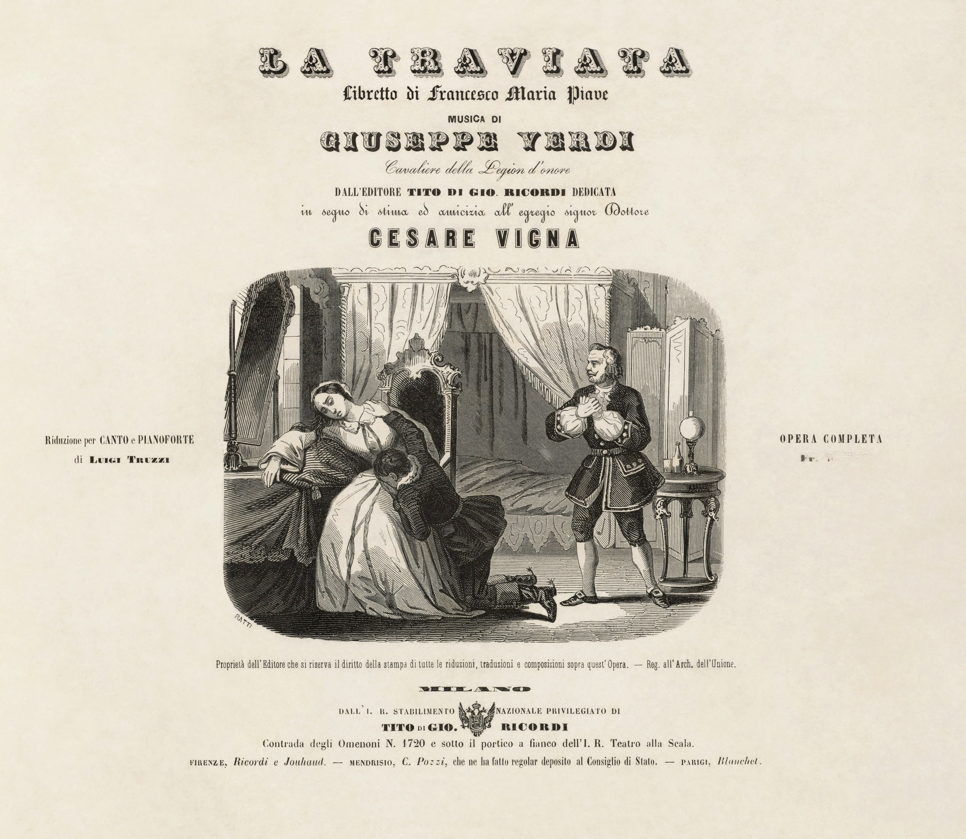 Title page of Verdi, Giuseppe, 1813-1901. [Traviata. Vocal score]. La traviata / libretto di Francesco Maria Piave ; musica di Giuseppe Verdi ; riduzione per canto e pianoforte de L. Truzzi. Milano : Tito di Gio. Ricordi, [1855?]. Mus 857.1.600.6 Illustration very clearly shows Act III, the act that takes place in Violetta's bedroom (and the only one that takes place in a bedroom), in which Violetta dies in her lover's arms while his regretful father watches.